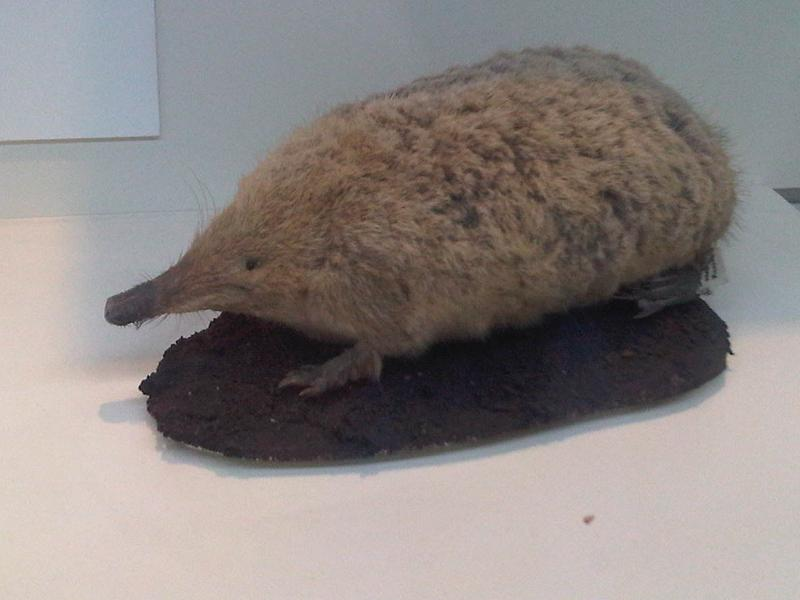 Taxidermied Russian Desman (Desmana moschata) at the Natural History Museum in London, England.